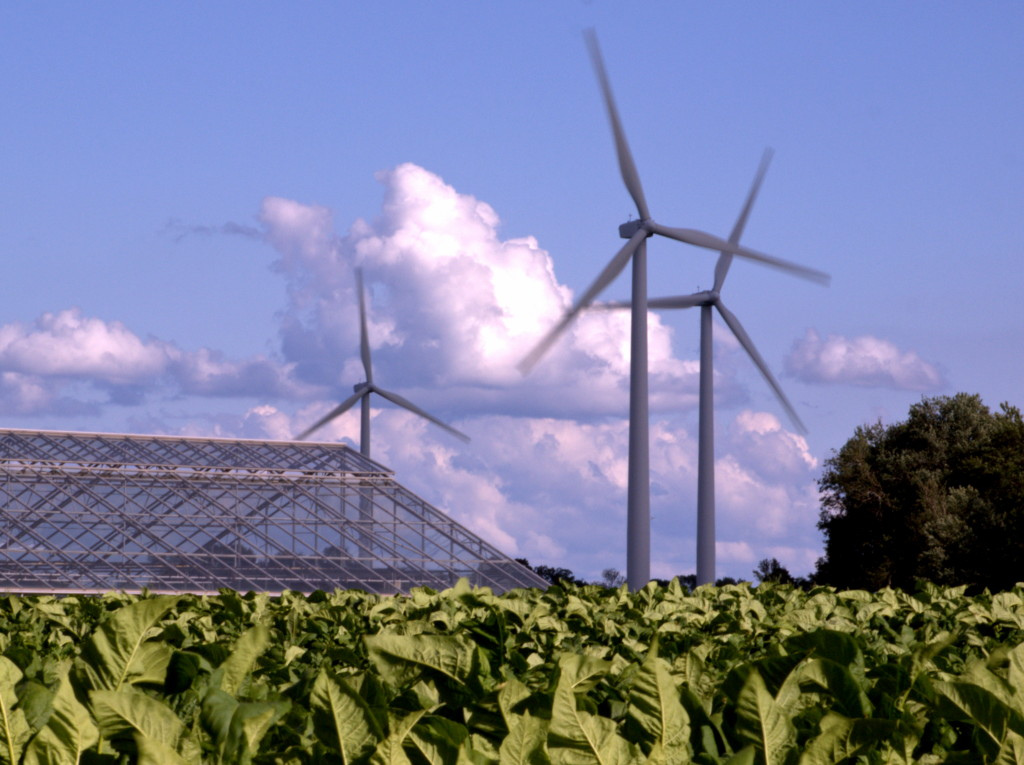 Old and new economy in Port Burwell, Ontario - tobacco and turbines